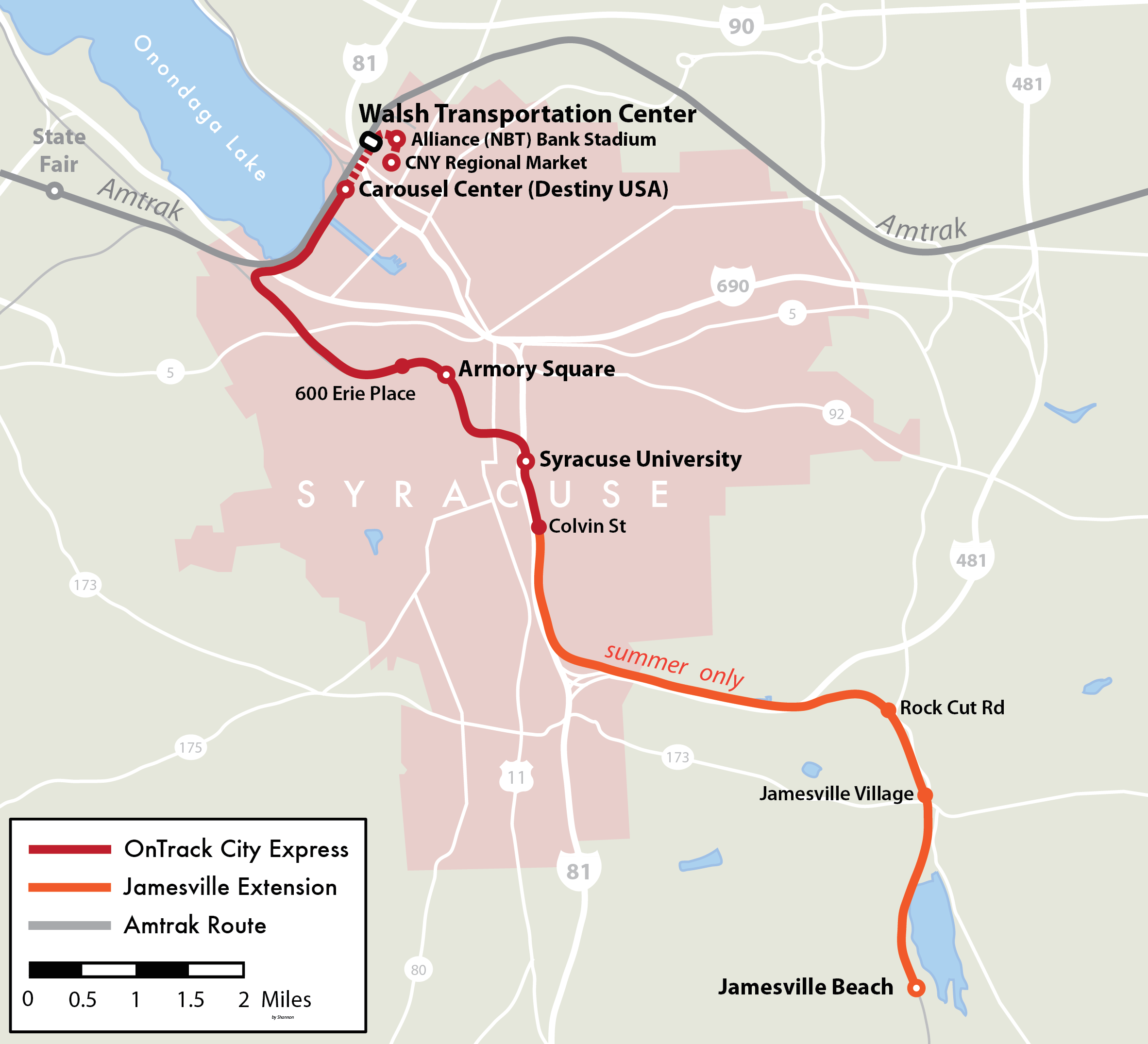 Map of the former OnTrack commuter rail in Syracuse, New York. Created using USGS National Map data.